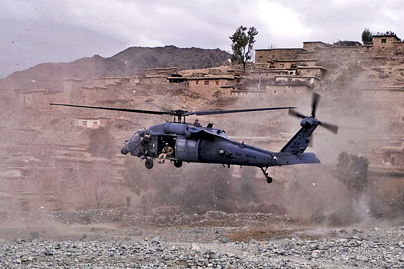 A UH-60 Black Hawk helicopter lands to medically evacuate an Afghan commando injured by insurgent small arms fire in the Sar Kani district of Afghanistan's Kunar province on March 7, 2012.